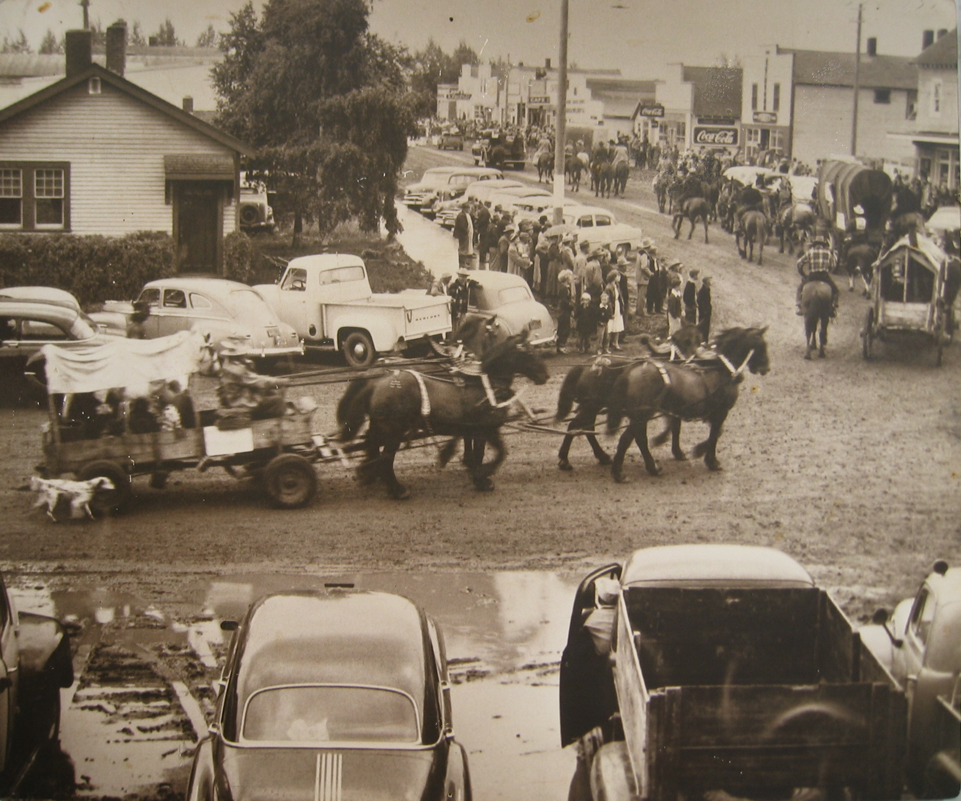 Barrhead